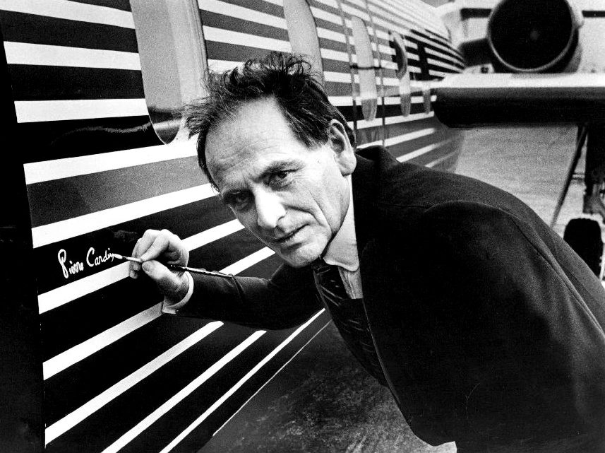 Photo of Pierre Cardin signing his latest design, an executive jet. No copyright found during early 1980s.